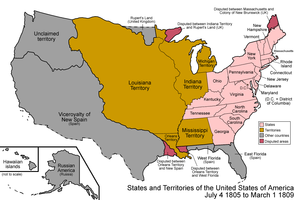 Map of the states and territories of the United States as it was from July 1805 to 1809. On July 4 1805, the District of Louisiana was organized as Louisiana Territory. On March 1 1809, Illinois Territory was split from Indiana Territory.